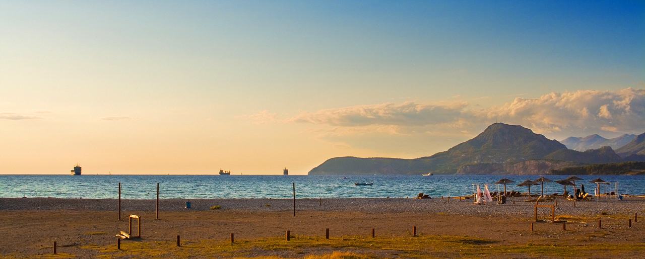 Main town beach in the centre of Bar during mid-October.